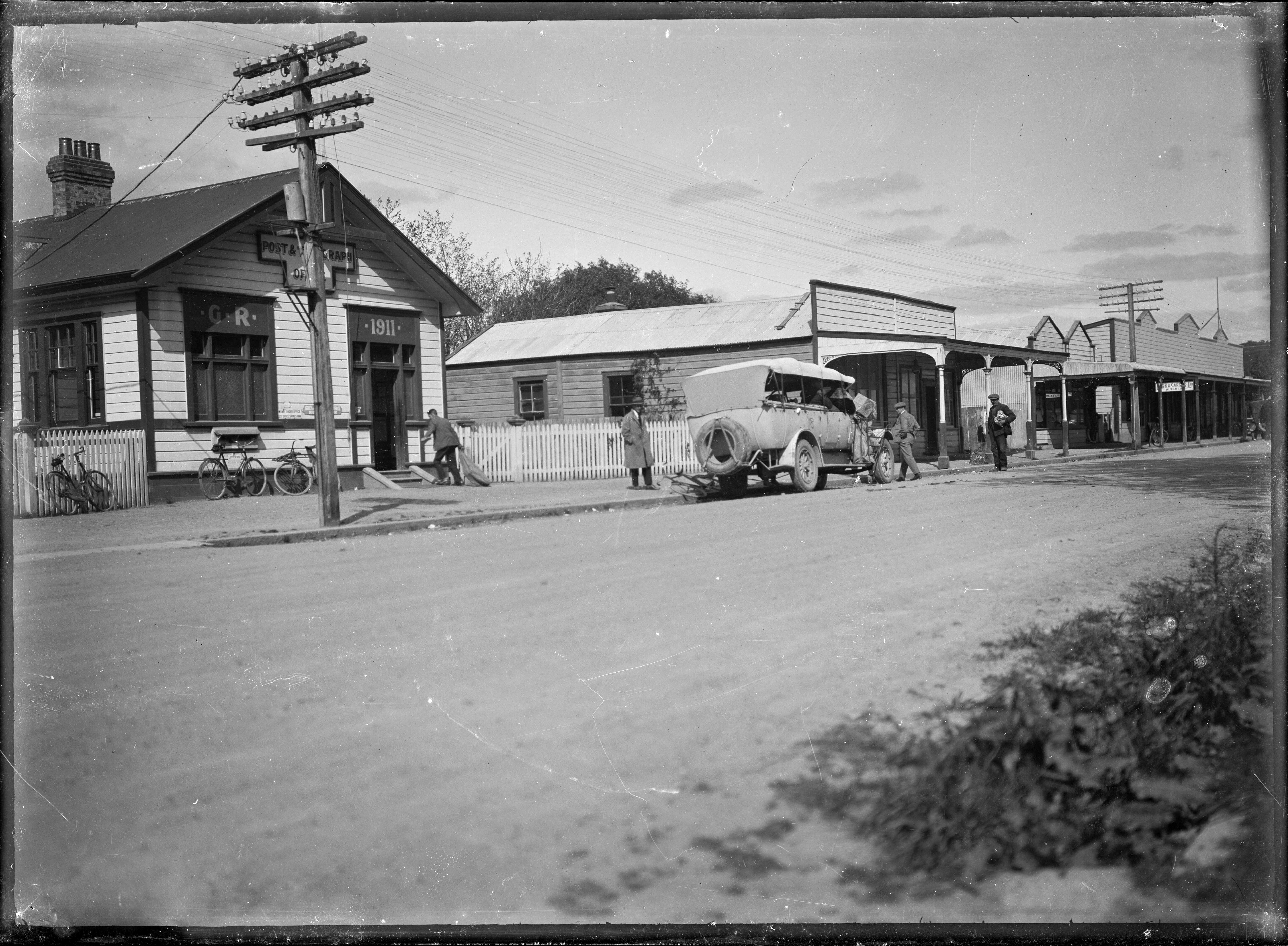 Main street in Taneatua showing shop frontages, including the Taneatua Post & Telegraph Office which was built in 1911. There are several men in the street, with a back view of a car. Photographed by Albert Percy Godber circa 1920s.